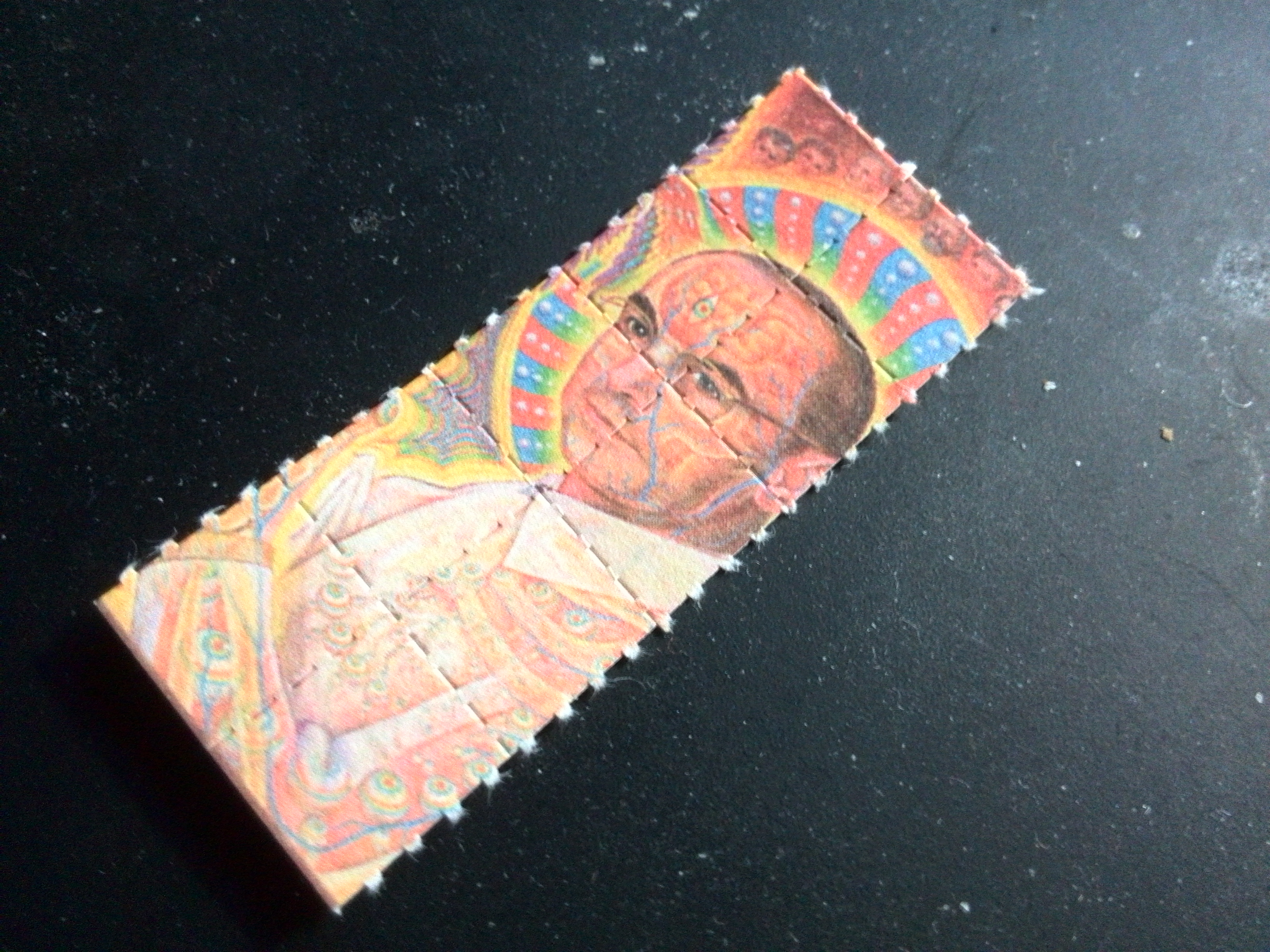 A tenstrip of "Alex Grey" Hofmann LSD blotters, dosed at 100-120 µg each.